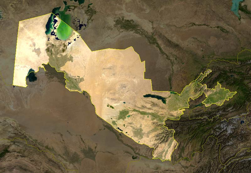 Image of Uzbekistan based on a satellite picture.